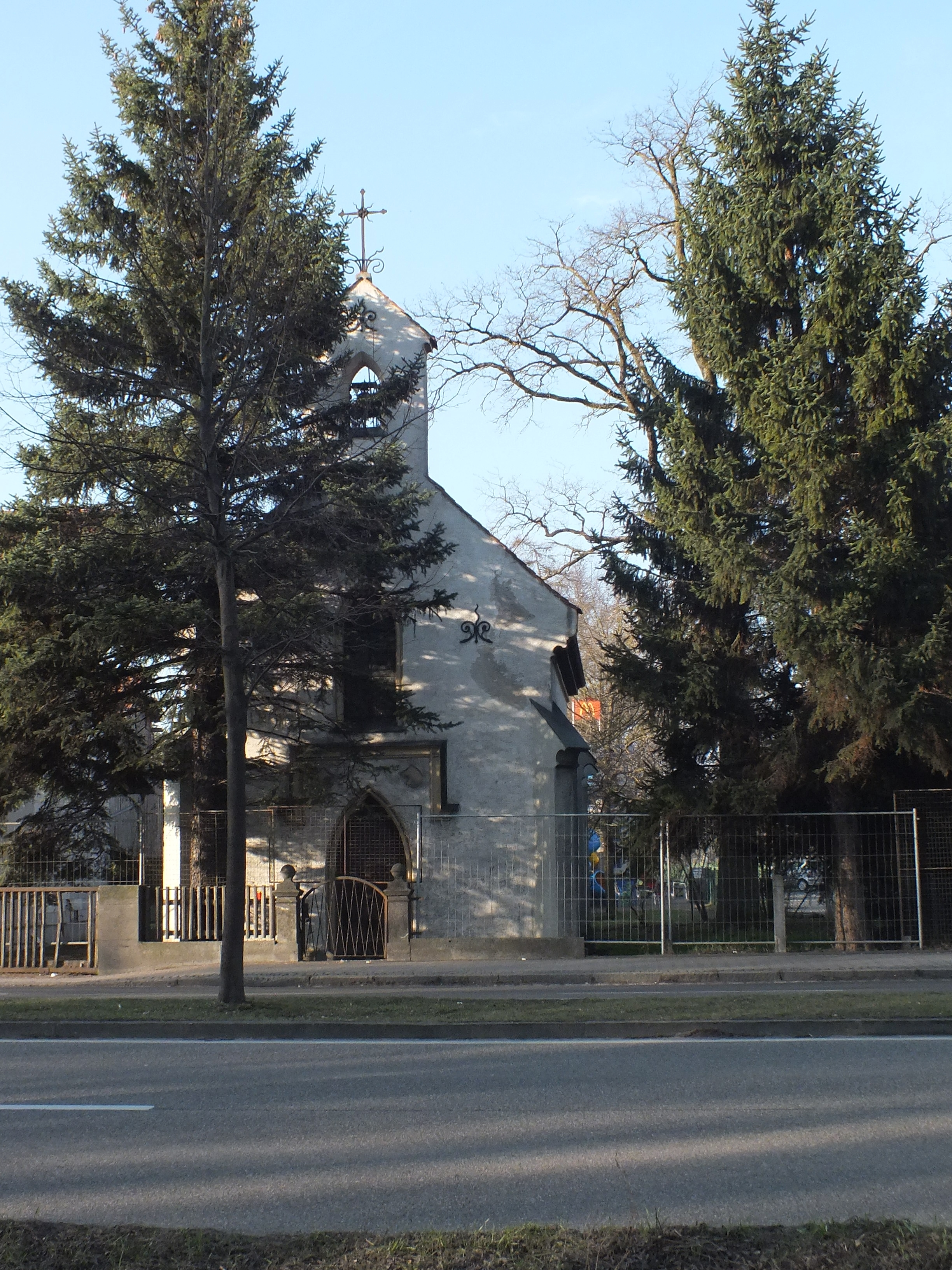 Ludl Chapel (Ludl Kapelle) (built 1899/1900) is one of the oldest still existing buildings in Karlsfeld